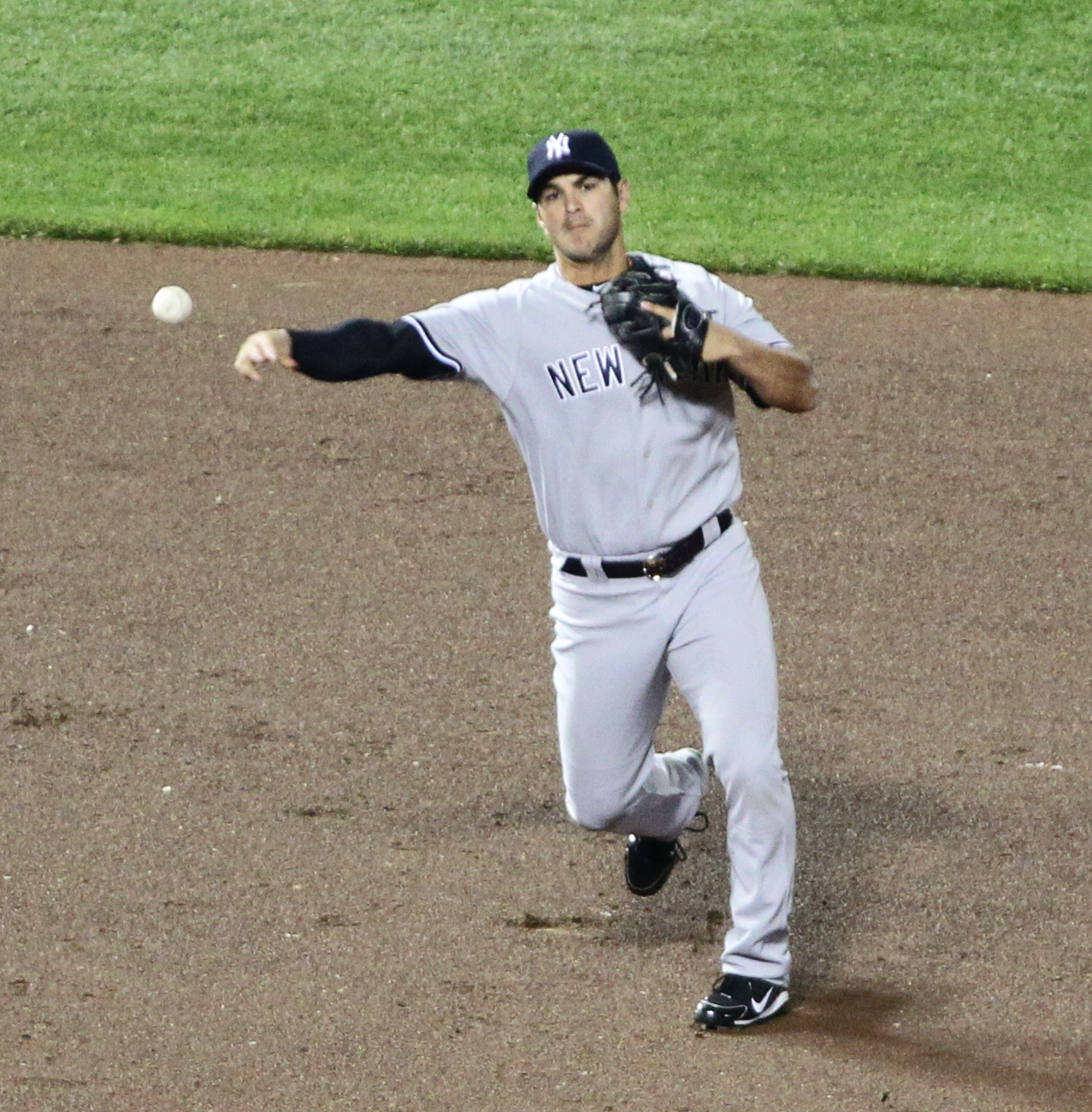 New York Yankees at Baltimore Orioles April 23, 2011